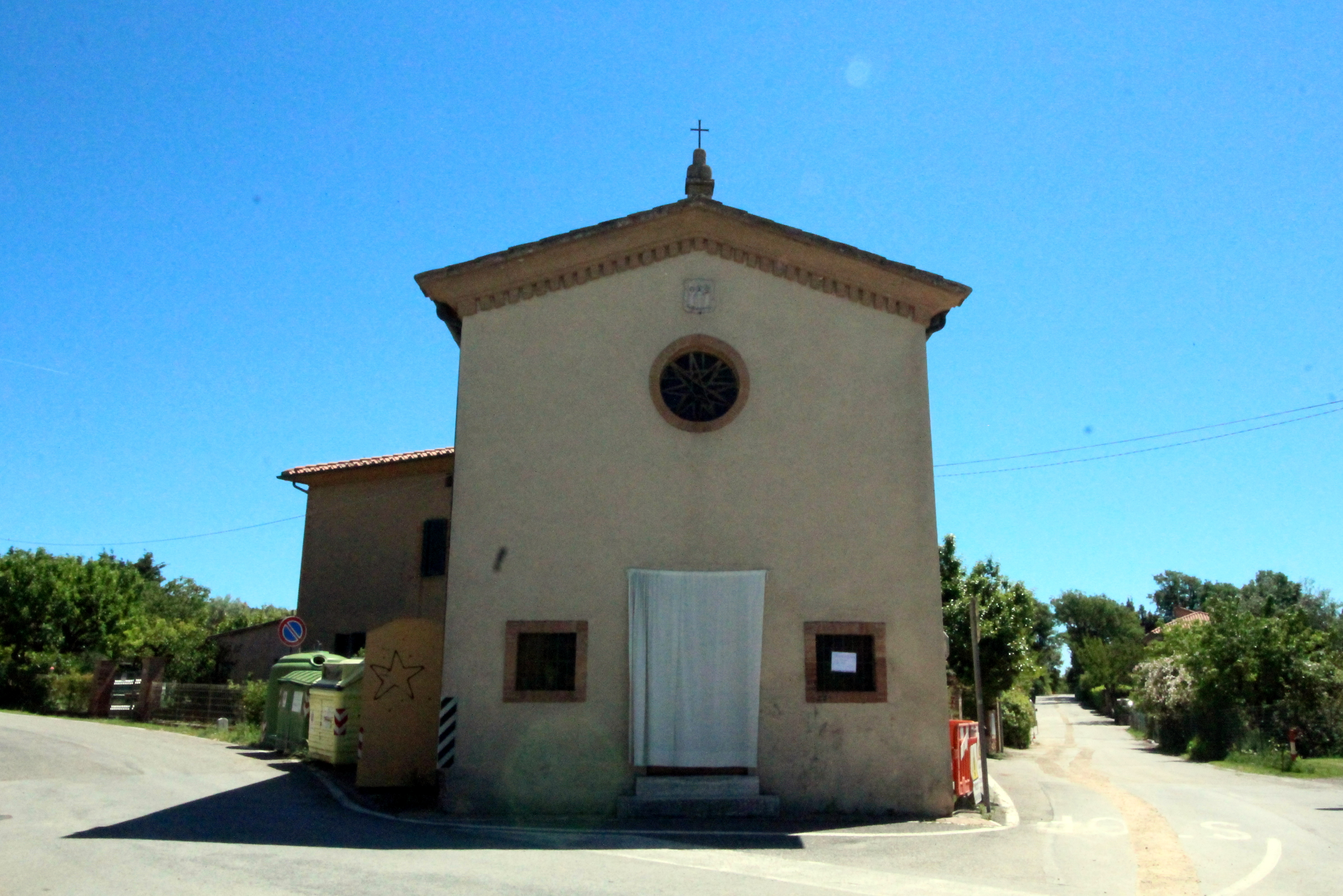 Church Chiesa di Lama, Località Lama, Iesa, hamlet of Monticiano, Province of Siena, Tuscany, Italy